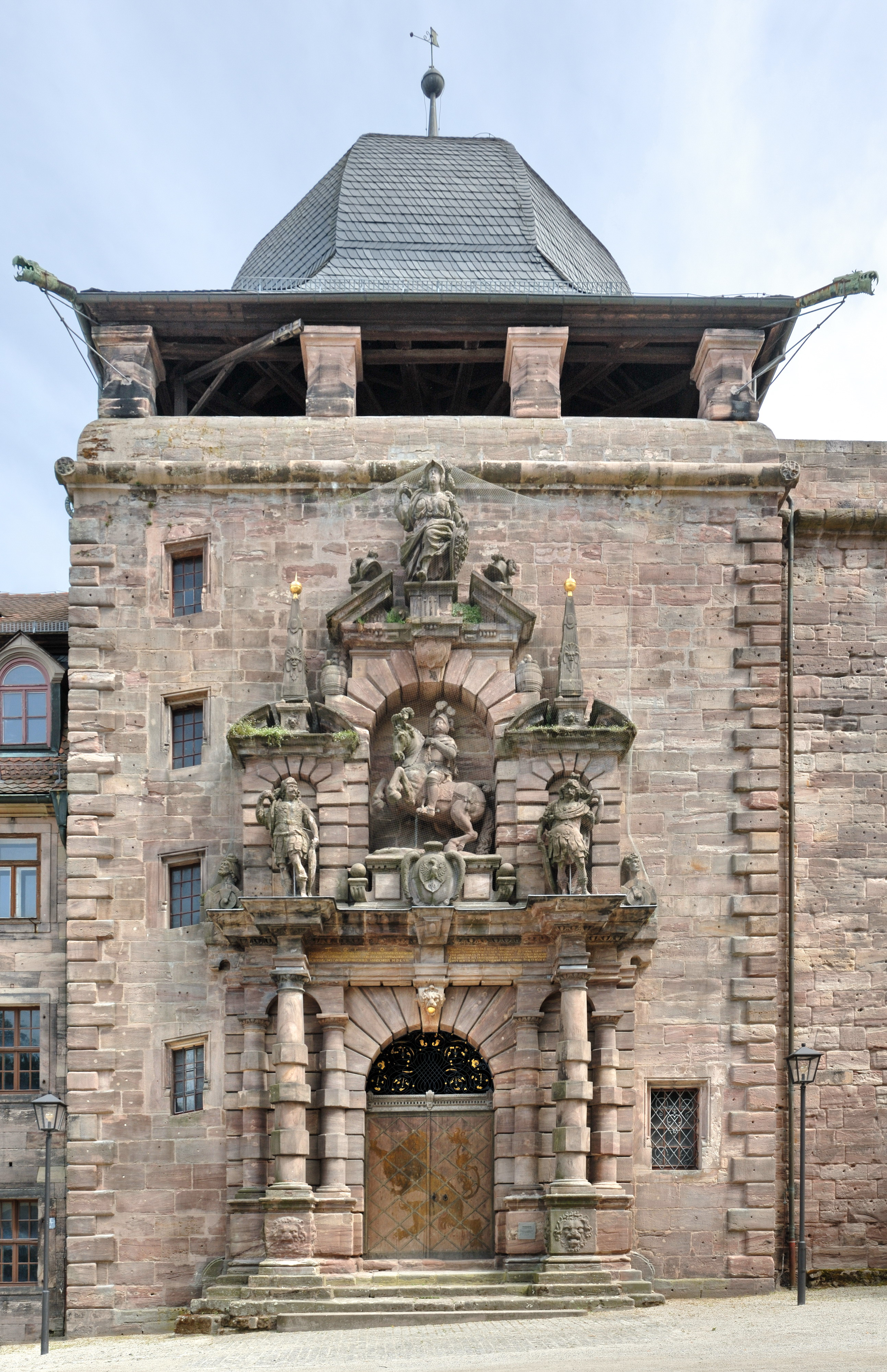 This image shows one of the doors within the inner courtyard of the Plassenburg in Kulmbach, Germany. It is a three segment panoramic image.